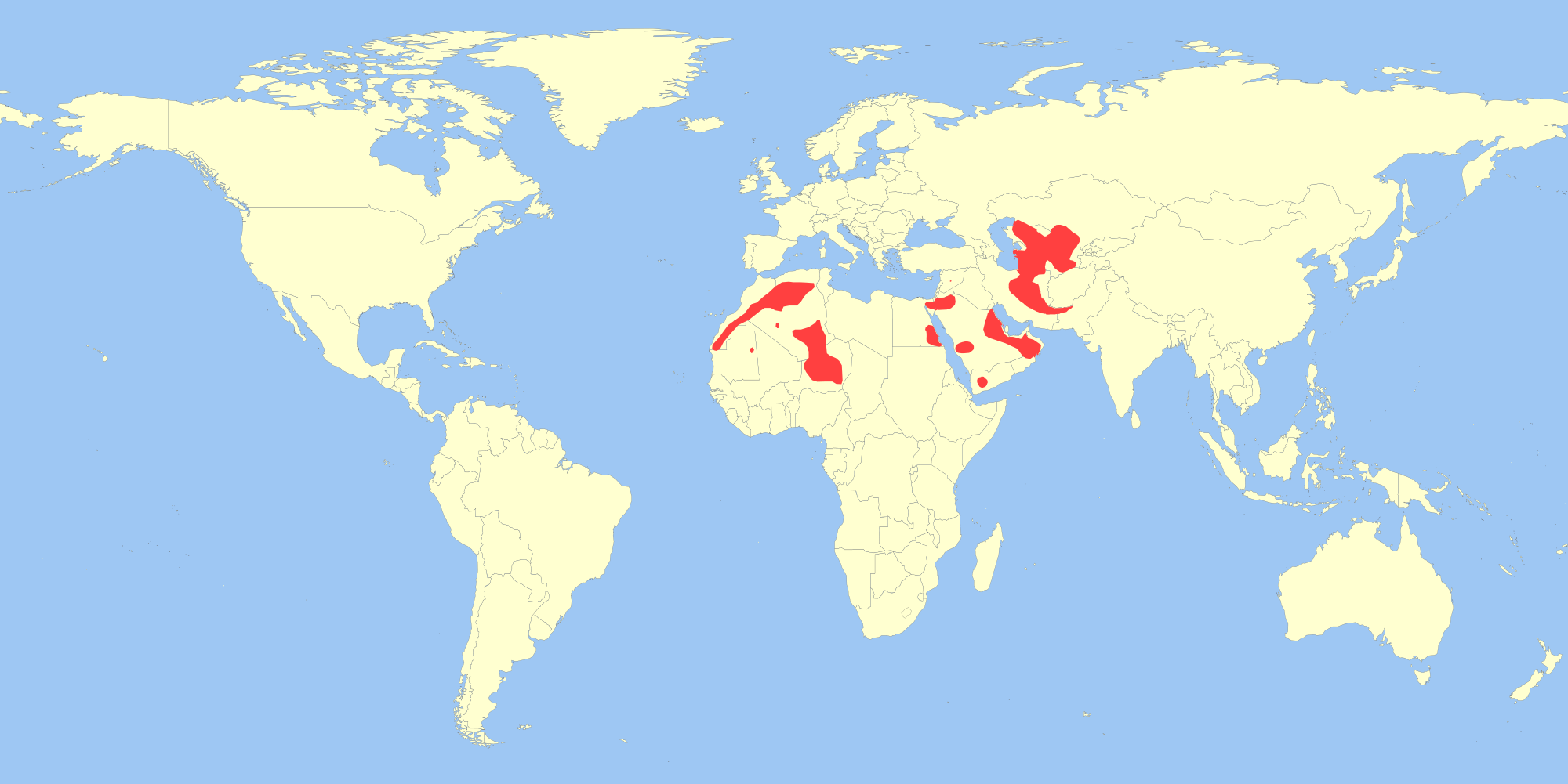 Geographic range of sand cat